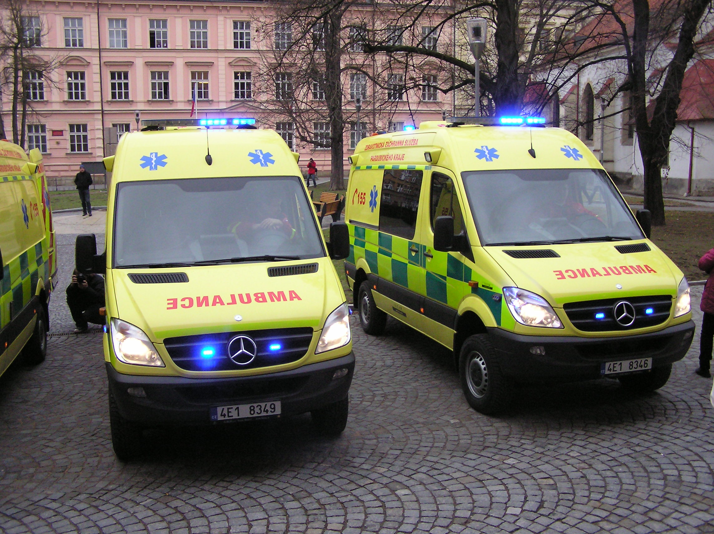 New ambulance vehicles Mercedes-Benz Sprinter 316 CDI 4x4 of the Emergency Medical Service of Pardubice Region, Pardubice, Czech Republic